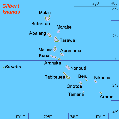 Map (rough) Gilbert islands, Kiribati, own work composed from various mapreferences